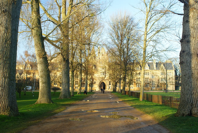 Christ Church College, Oxford Looking towards the main visitor entrance, in the Meadow Building.